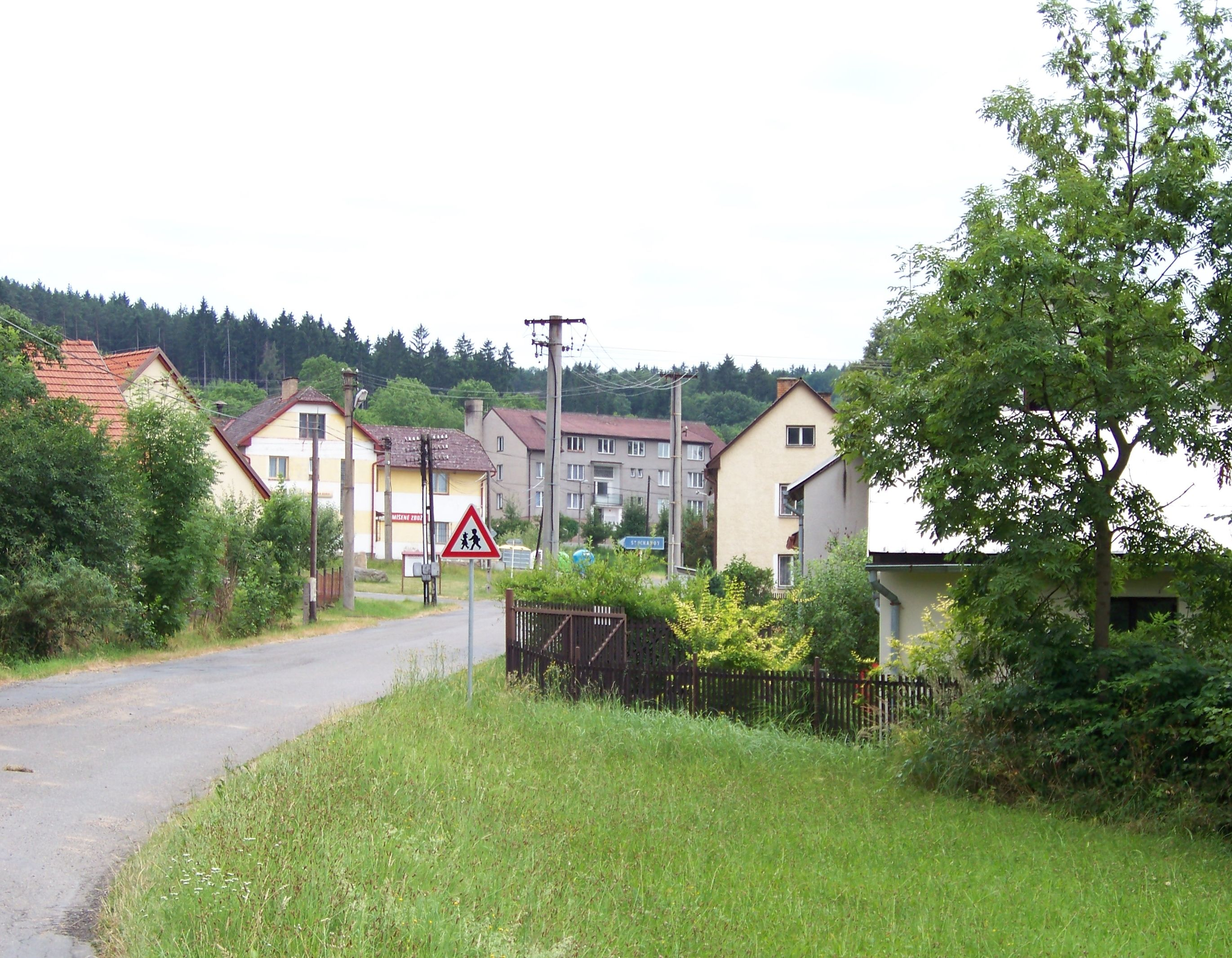 Sedlec-Prčice-Kvasejovice Příbram District, Central Bohemian Region, the Czech Republic. - Google Maps - Google Earth